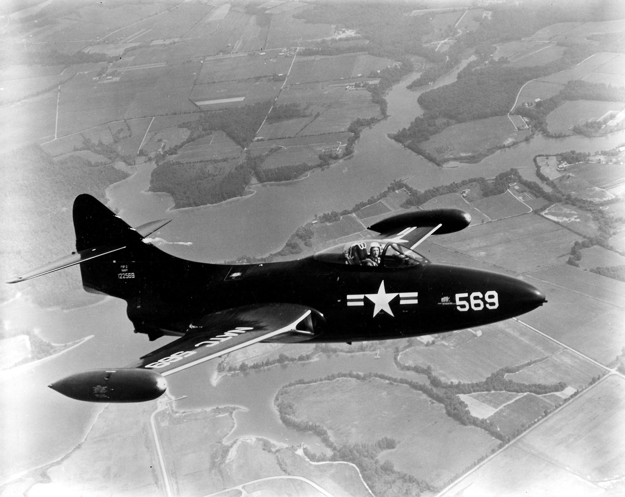 The tenth production Grumman F9F-2 Panther (BuNo 122569) in the late 1940s while being tested by the U.S. Naval Air Test Center at Patuxent River, Maryland (USA).